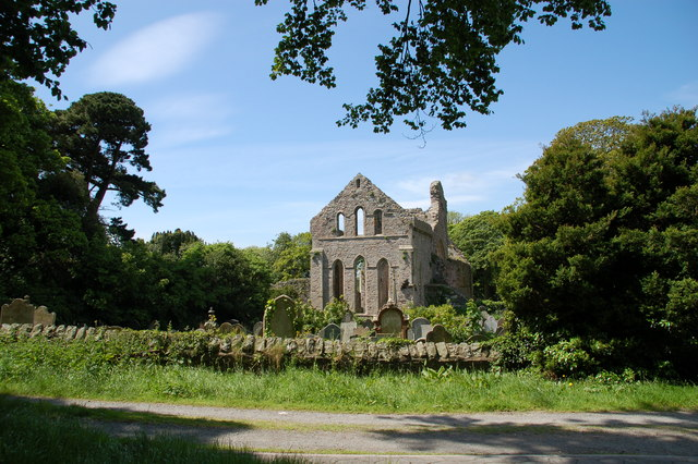 Grey Abbey, founded in 1193 by Affreca, daughter of Godred Olafsson, King of Mann and the Isles. Affreca was the wife of John de Courcy. It was dissolved in 1541.[1]